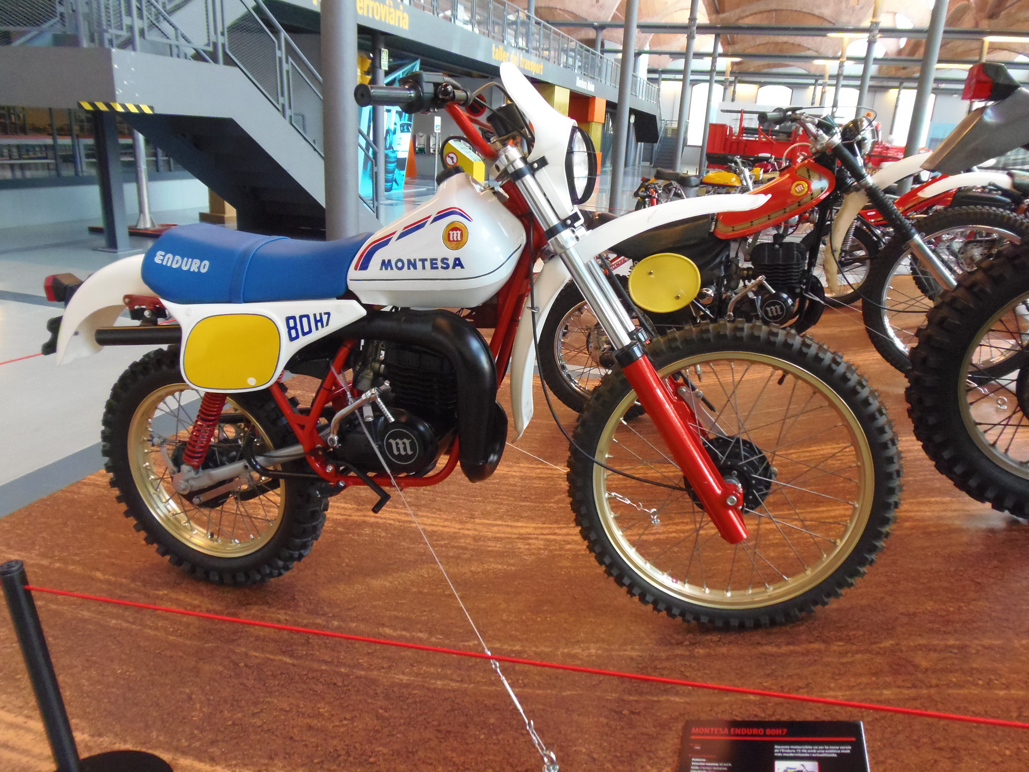 Montesa Enduro 80 H7, 1985